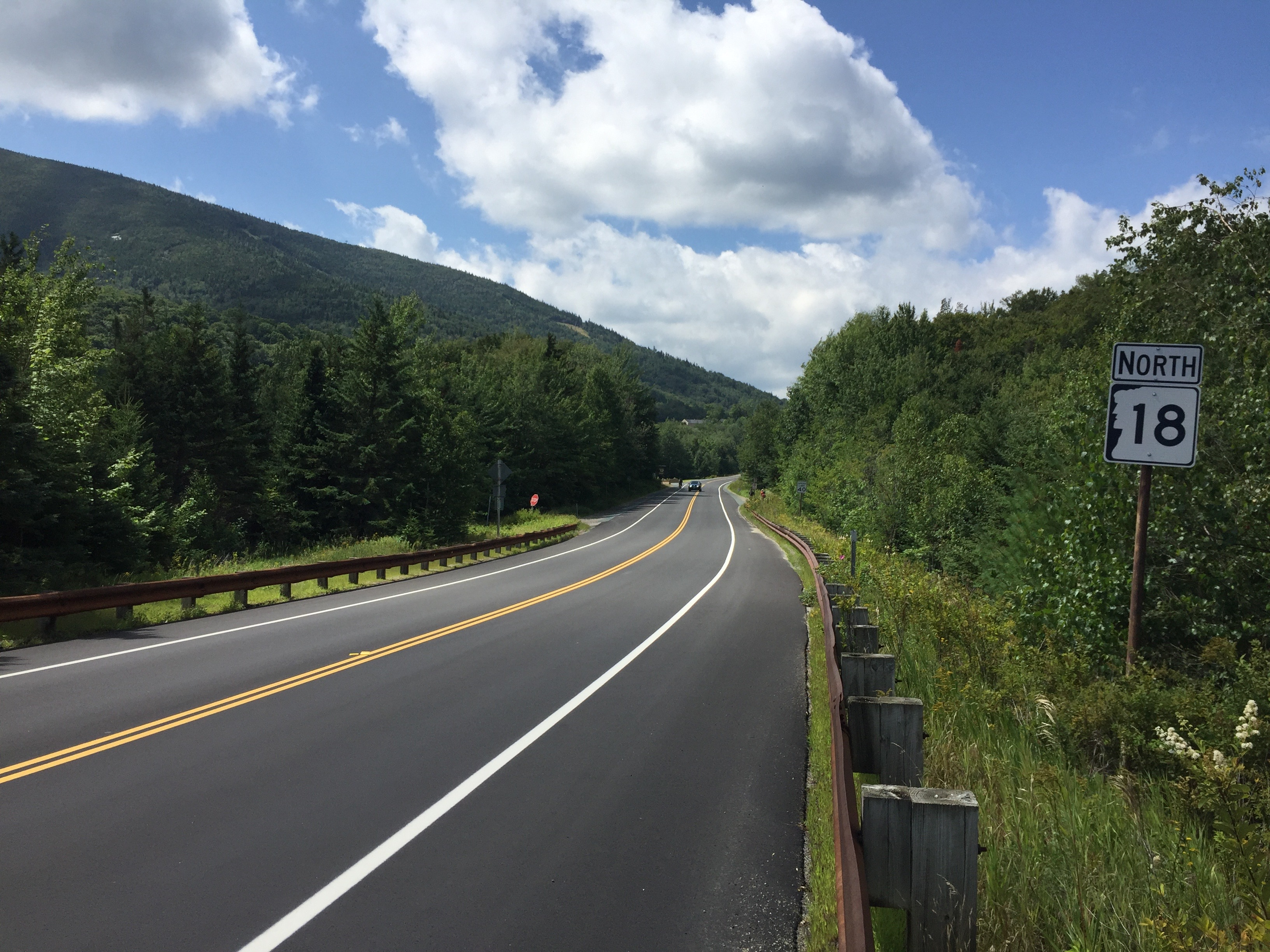 New Hampshire Route 18 in Franconia Notch, New Hampshire